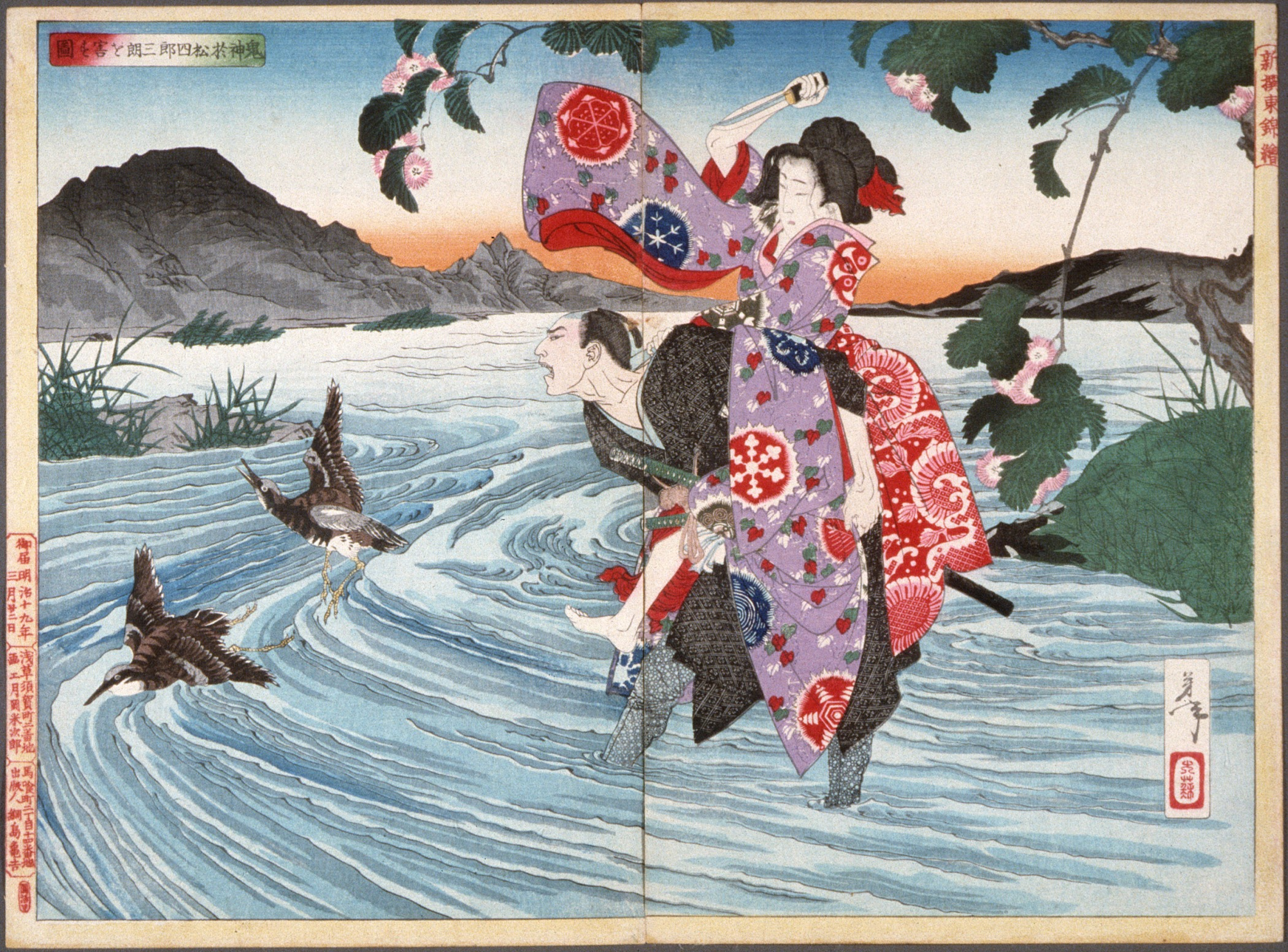 Japan, 3/1886 Series: A New Selection of Eastern Brocade Pictures Prints; woodcuts Diptych; color woodblock print Herbert R. Cole Collection (M.84.31.276a-b) Japanese Art 鬼神のお松が武士の夏目四郎三朗を騙して背負わせ、谷川を渡る途中で殺す場面を描いたもの